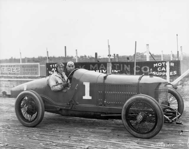 Dario Resta is photographed in July of 1919 at the Tacoma Speedway in his Resta Special. Also in the vehicle is his mechanic R. Dahnke. Resta was making his first appearance at the Tacoma track and he was an unknown wildcard. In the trials for the July 4th race, he appeared to holding his car back, only going fast enough to qualify. However, it turned out that the smaller engine in his vehicle could not compete with the four larger cars. He finished last in the 40 mile and 60 mile races and dropped out of the 80 mile race with engine problems. Resta was born in Milan, Italy in 1884. His greatest year in racing was 1916, when he won both the Indy and the Driver's Championship. He was killed in a crash at Brooklands, England on September 2, 1924 when his car went out of control. (TDL 7/5/1919, pg. 1; 7/2/1919, pg. 8-9) G51.1-109; TPL-1645